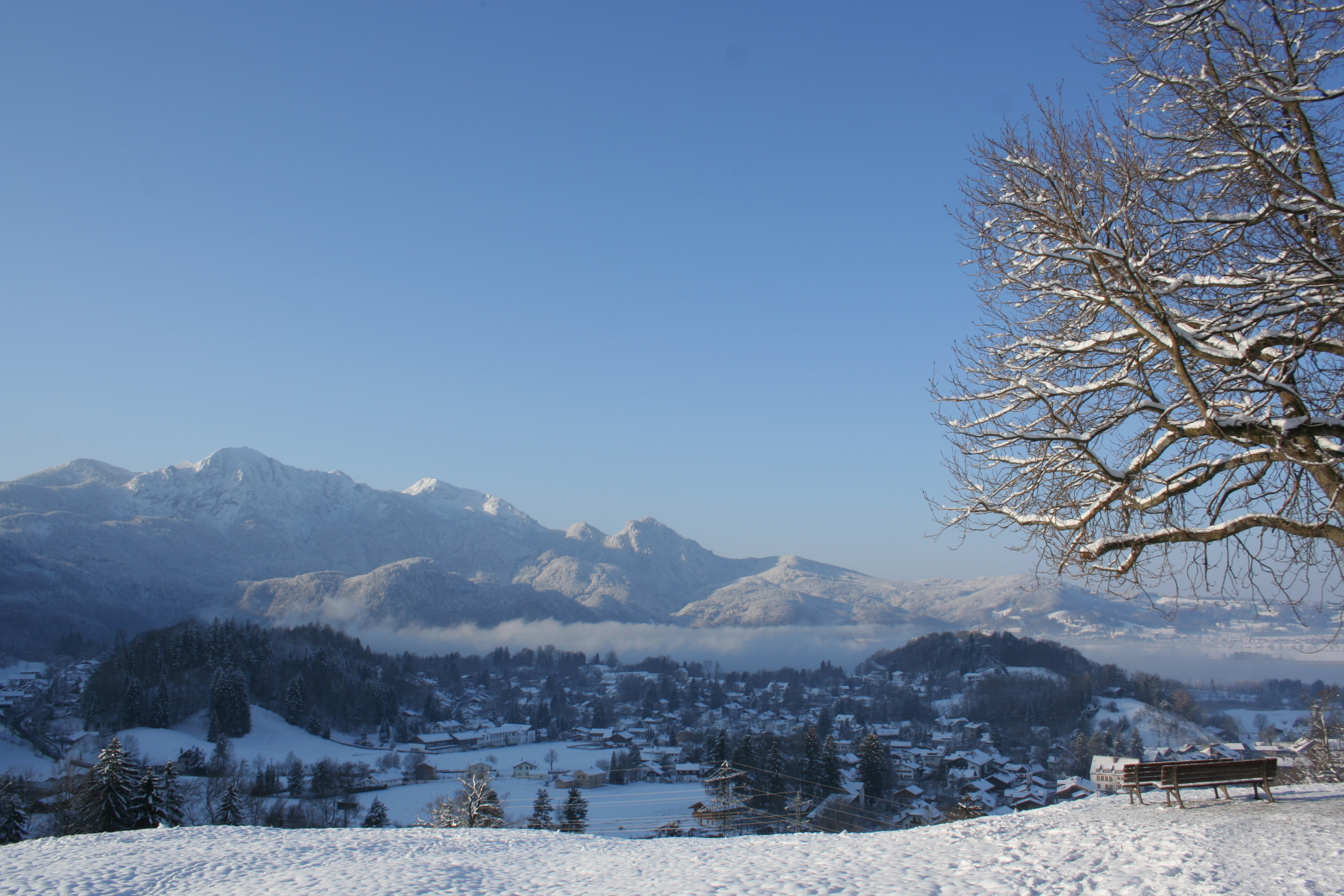 View of Kochel village